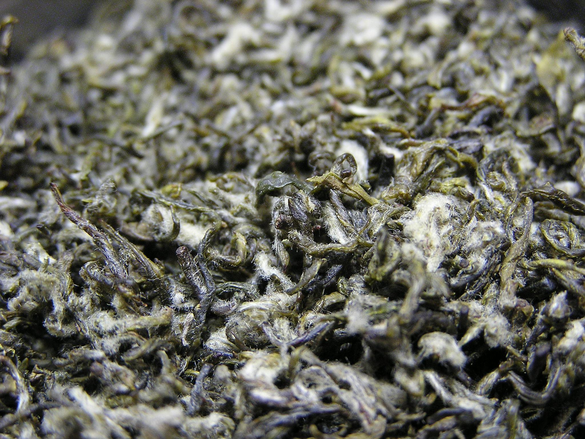 Its a tea leaves of bi-luo-chun(Chineese).